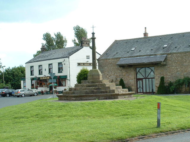 South Inglewhite. Memorial and Pub are in northern part of square